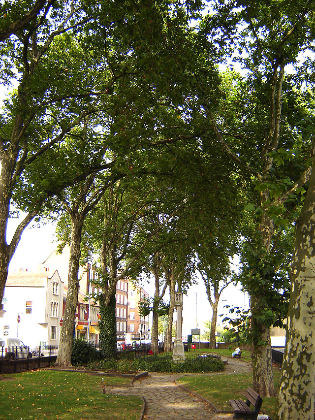 Shacklewell Green, Hackney, London. 3 September 2005. Photographer: Fin Fahey